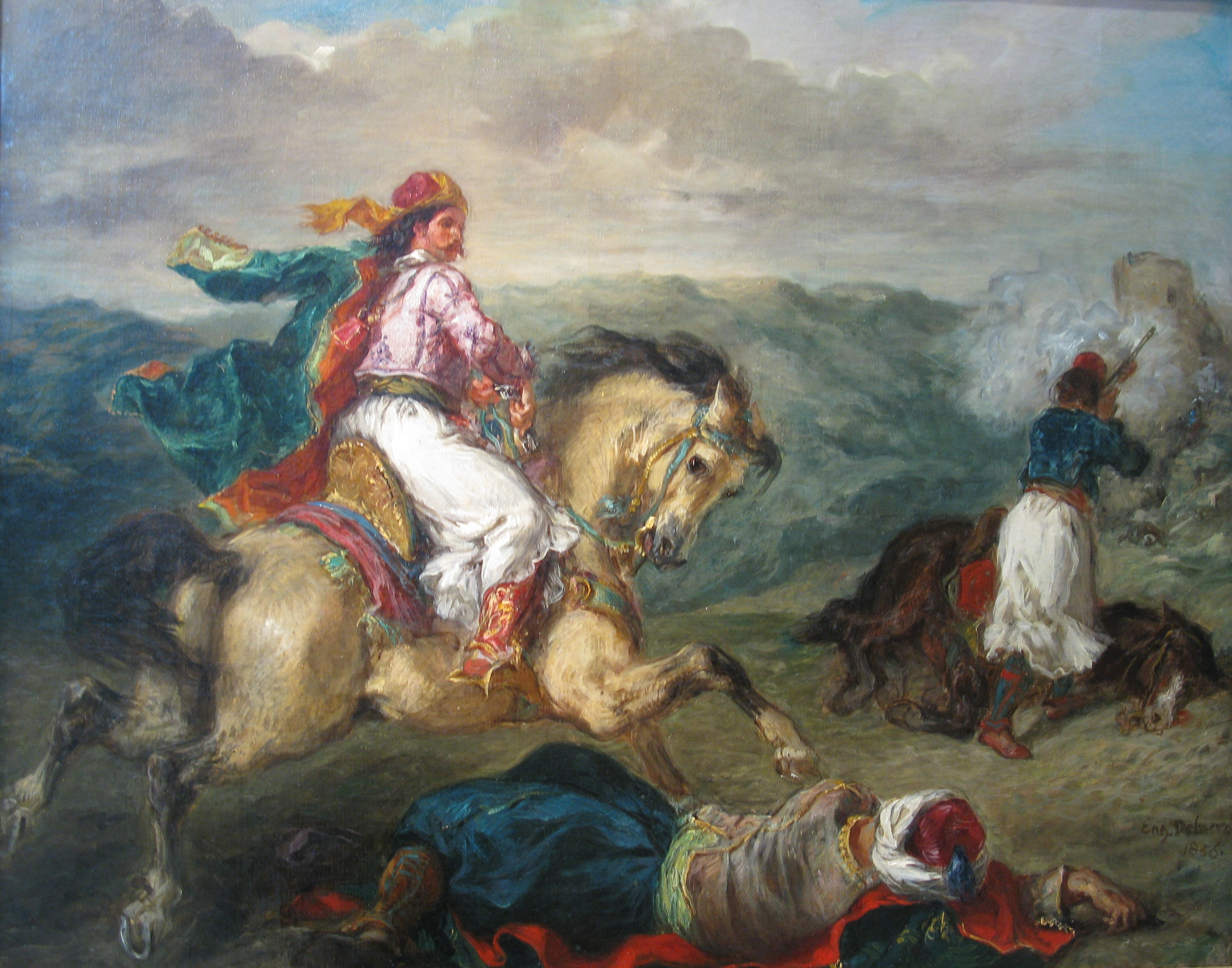 Eugene Delacroix (1789-1863) Mounted Greek Warrior, 1856, oil on canvas. (Purchased by the Greek State with the contribution of Vasilis Goulandris and Stavros Niarchos, inv. no. 5618). Permanent Collection of the National Gallery, Athens, Greece.